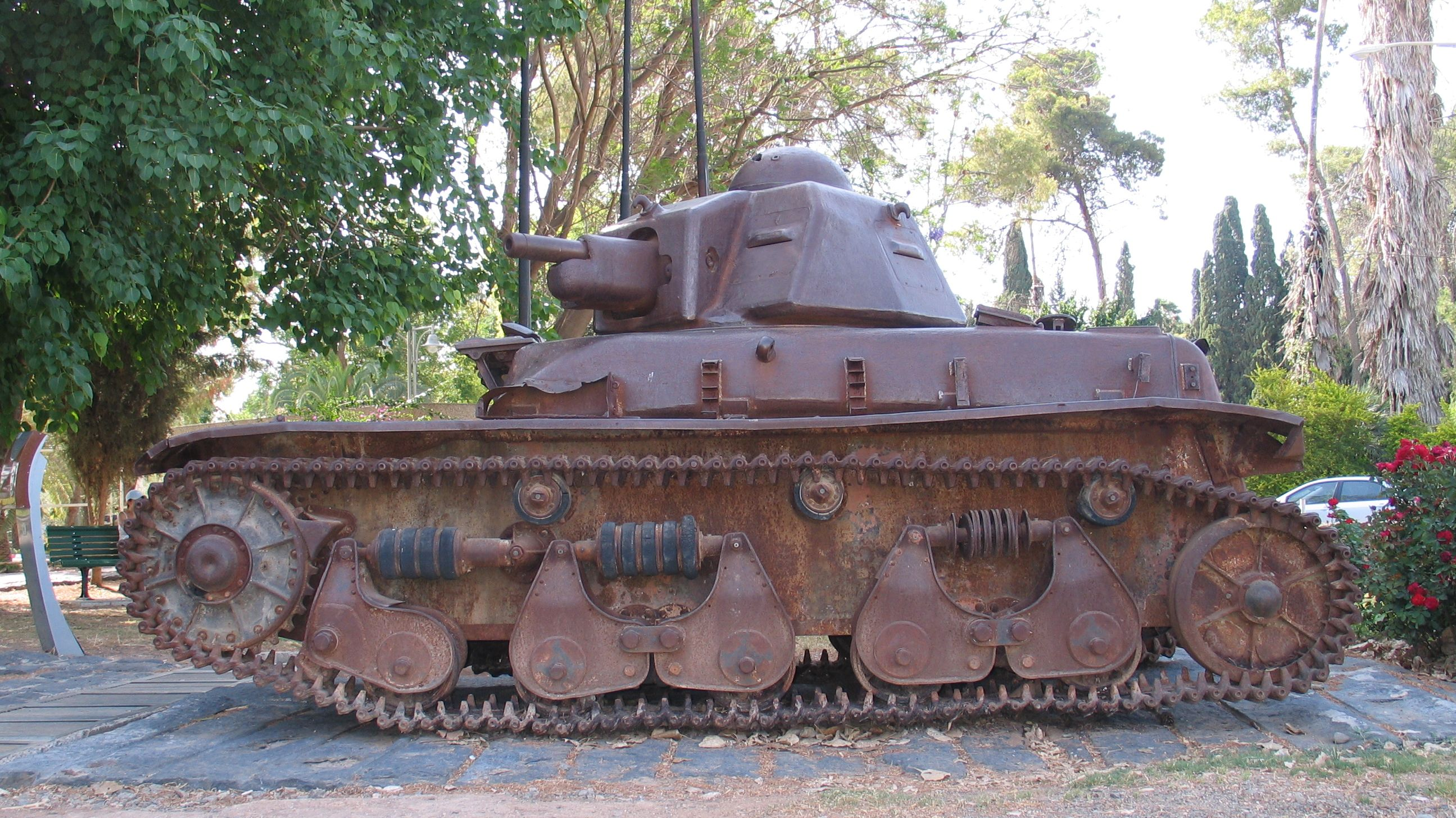 Captured Syrian Renault R 35 tank at kibbutz Dgania Alef, Israel.